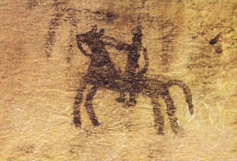 Cave painting in Doushe cave, Lorstan, Iran